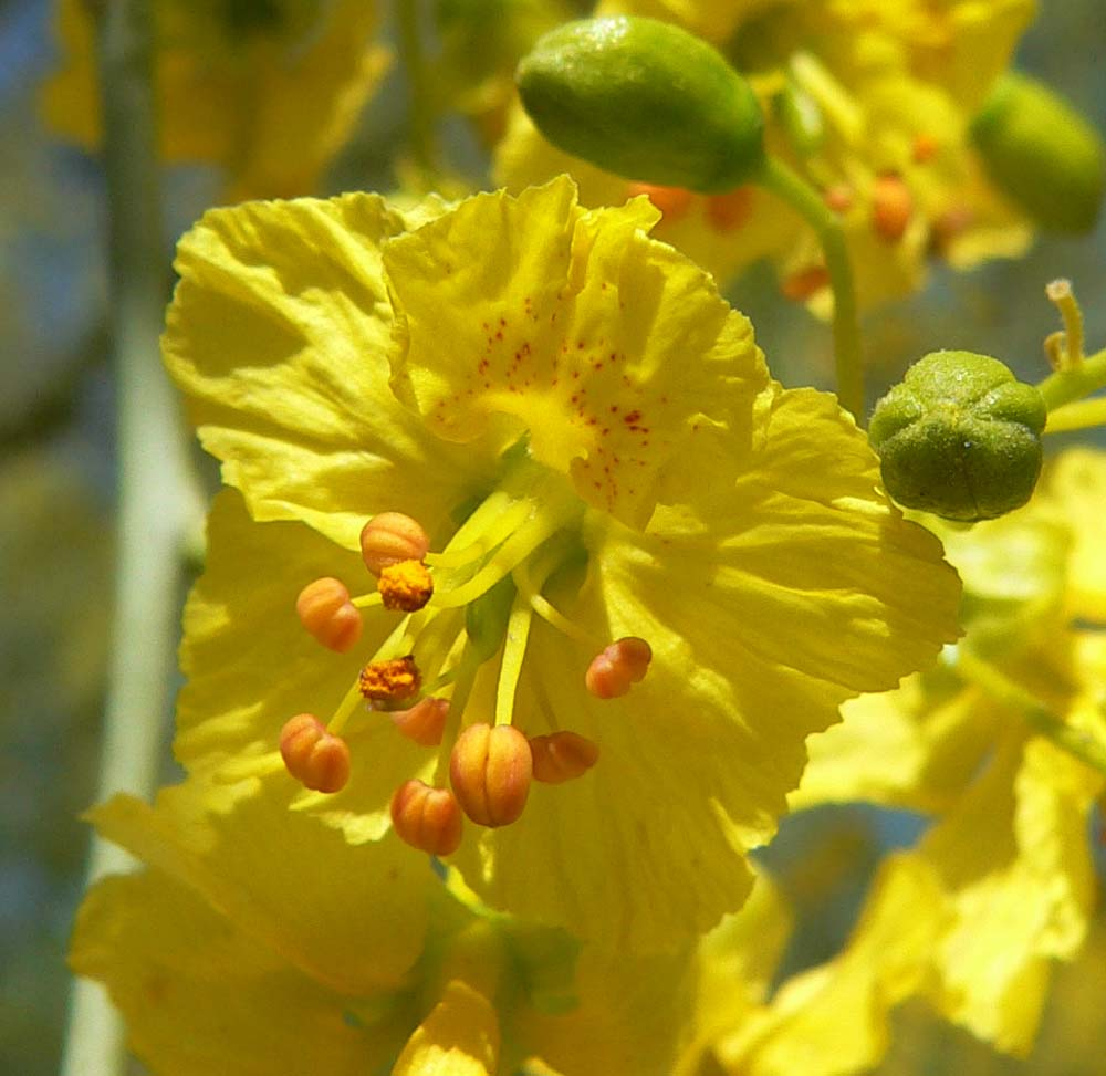 Photo of Cercidium floridum (blue palo verde) at the Springs Preserve garden in Las Vegas, Nevada